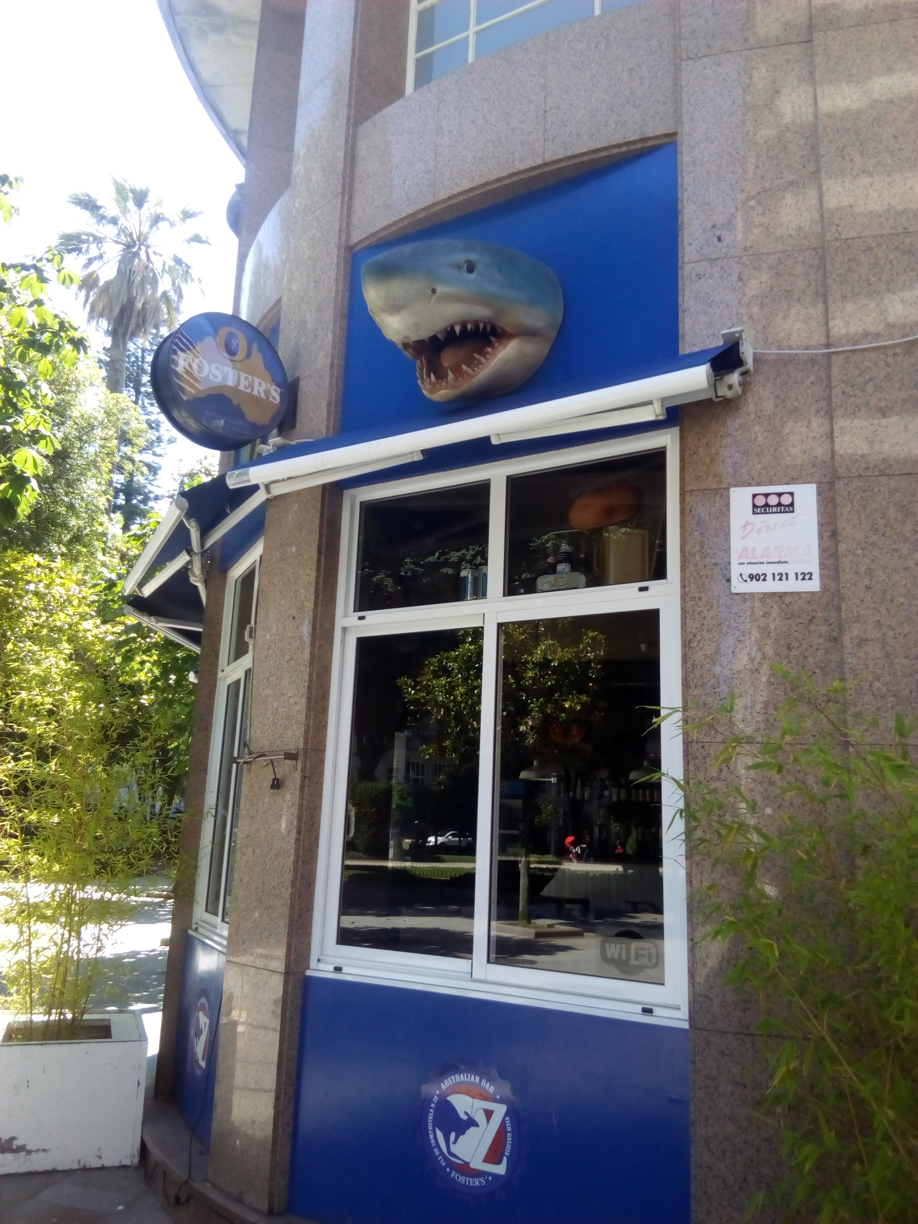 foster en vigo